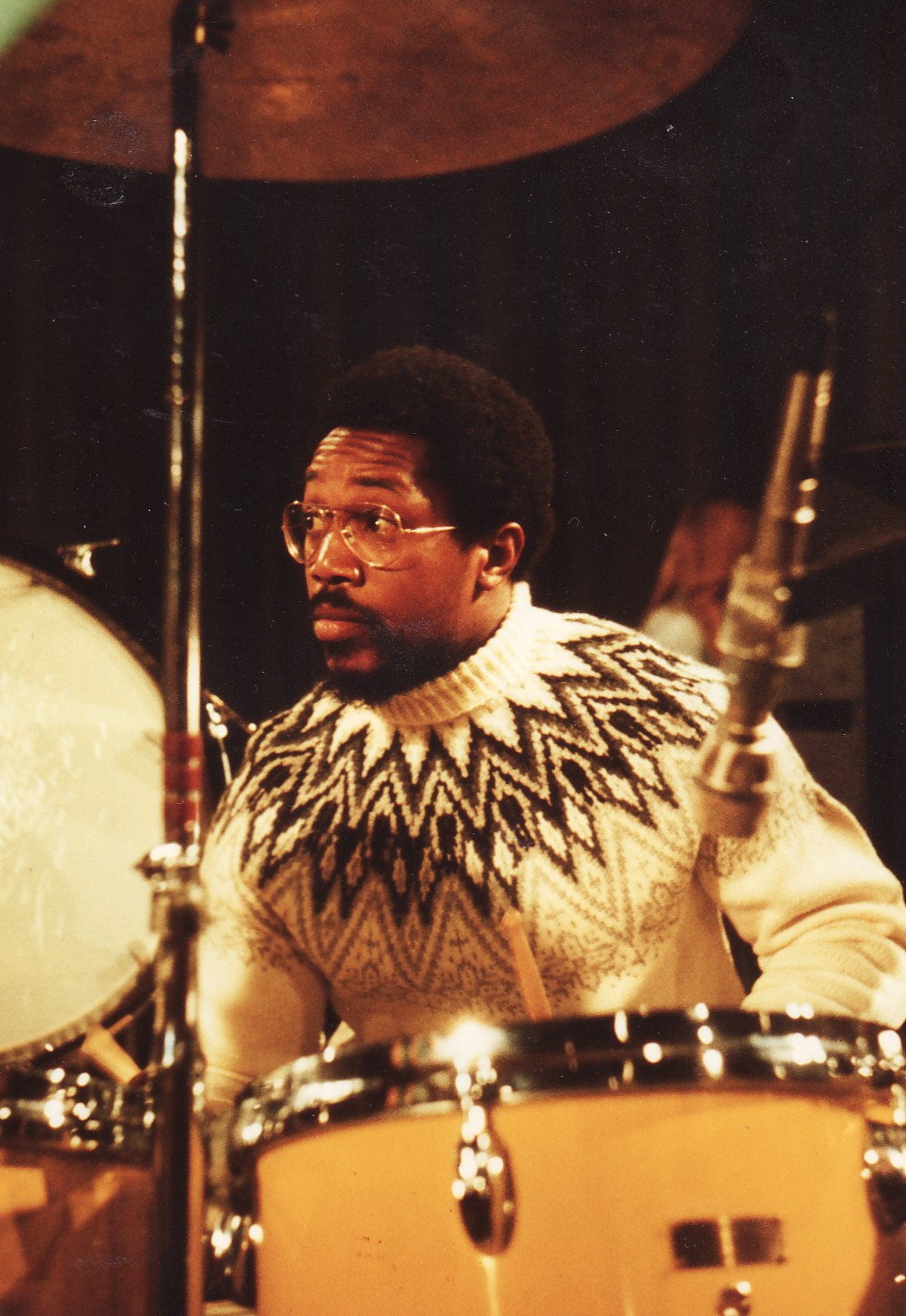 This photo was taken during the soundcheck before the opening concert for Billy Cobhams Crosswinds tour at Kongeberg Jazzfestival in july 1974. The band included Randy and Michael Brecker, Glenn Ferris, Milcho Leviev, Alex Blake and John Abercrombie.